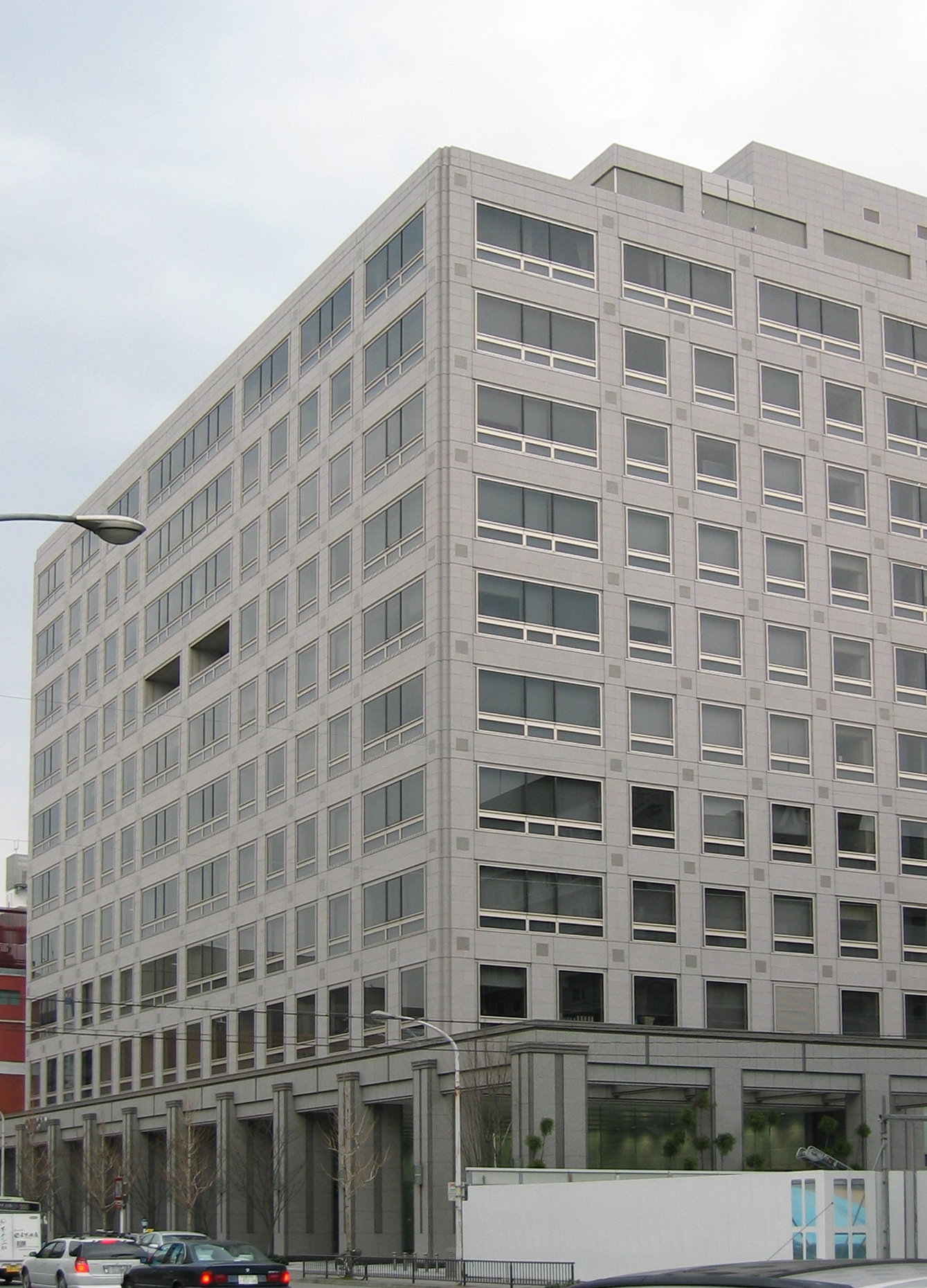 Photograph of OMRON Kyoto Center Building, head office of OMRON Corporation in Shimogyo-ku, Kyoto, Kyoto Prefecture, Japan.